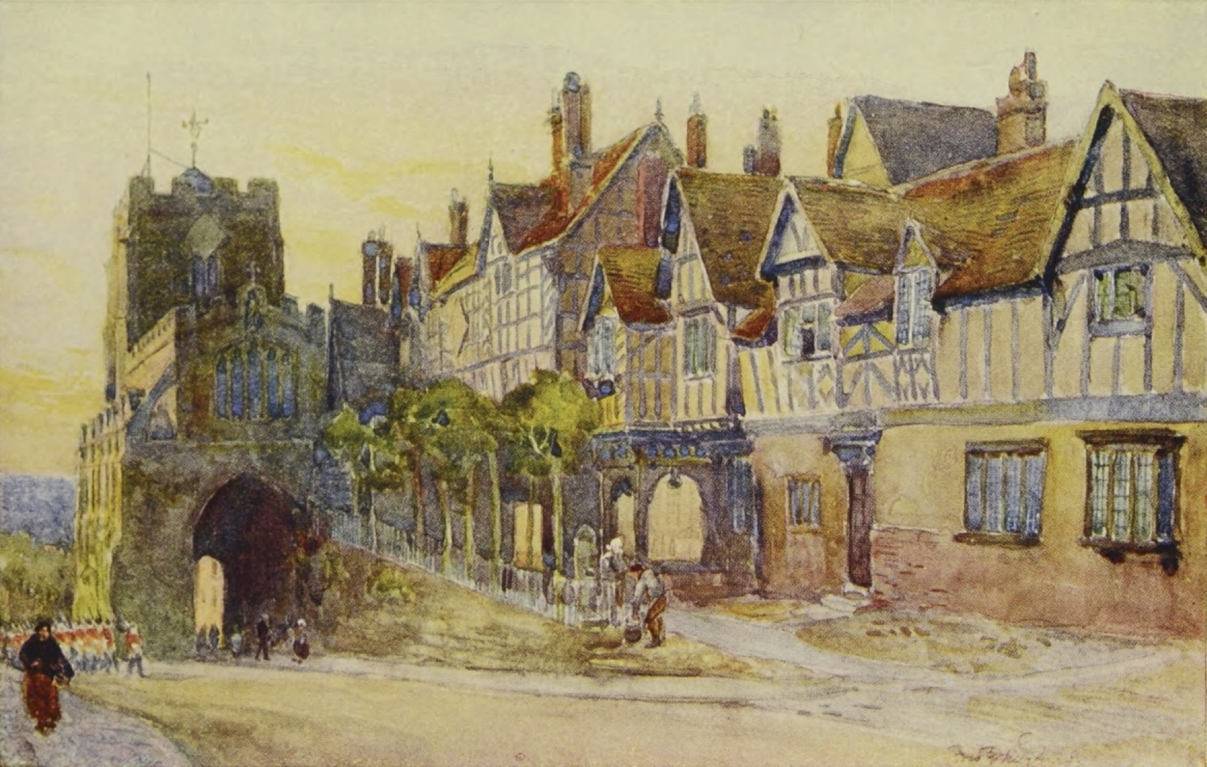 West Gate and Lord Leycester Hospital, High Street, Warwick